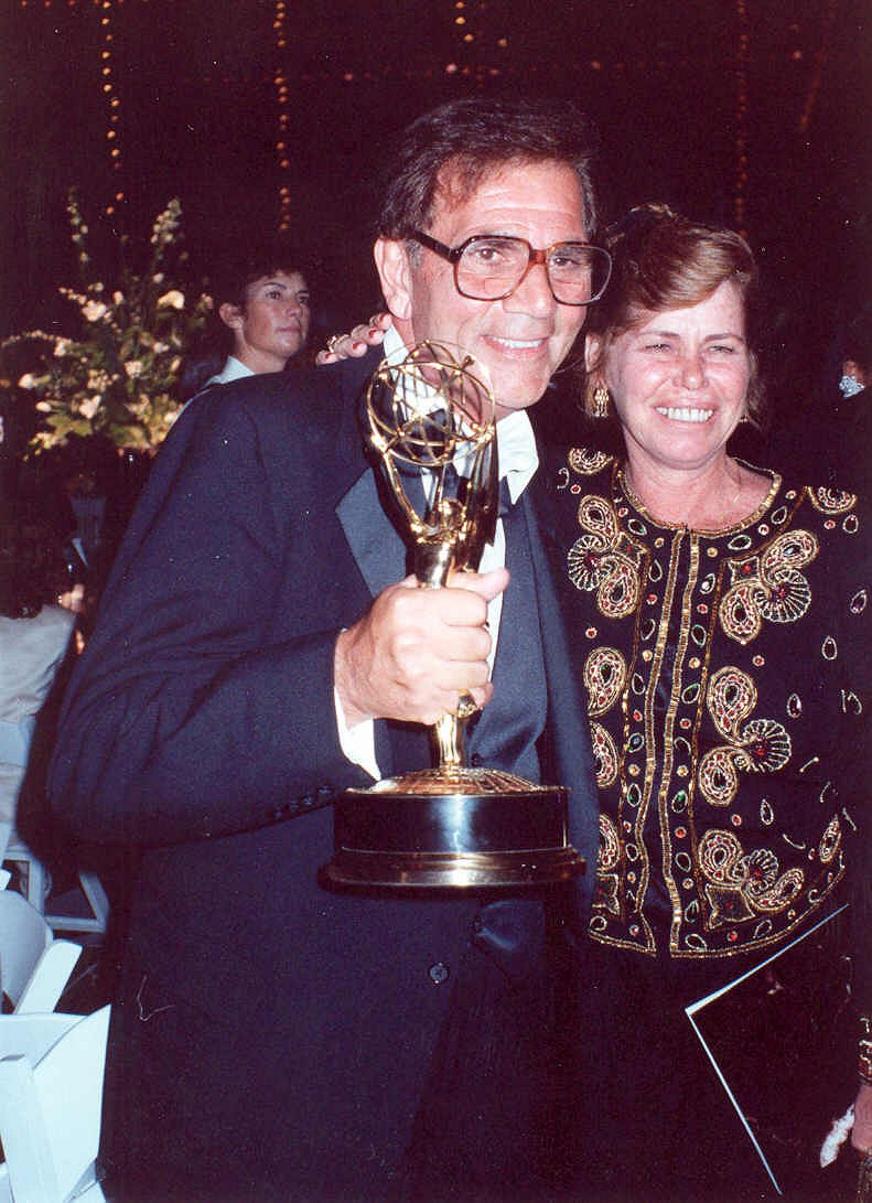 Emmy-winner Alex Rocco at the Governor's Ball held immediately after the 1990 Emmy Awards 9/16/90